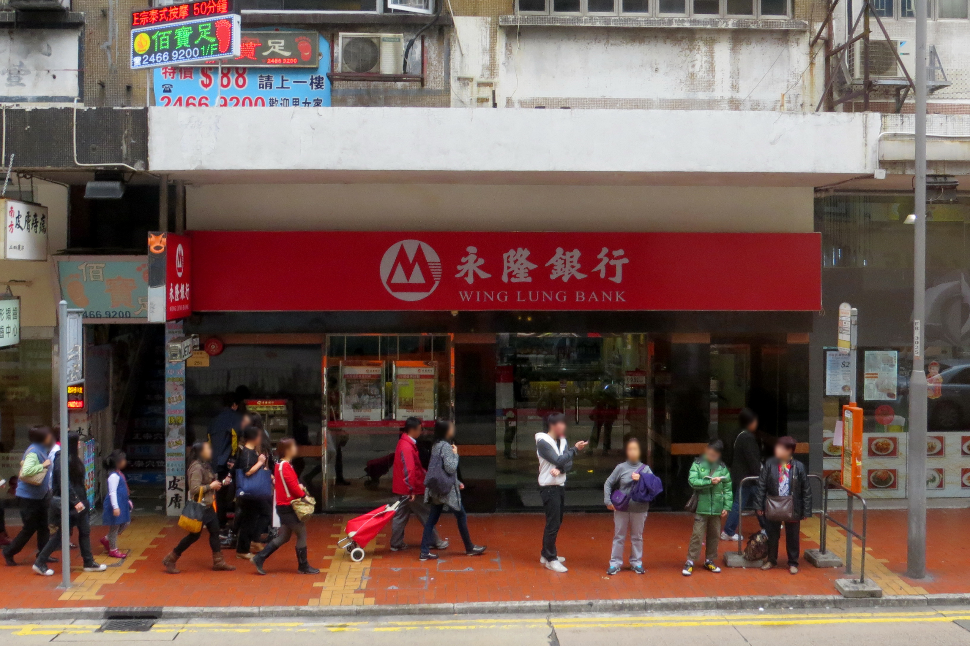 Wing Lung Bank, Tsuen Wan Branch at 251 Sha Tsui Road, Tsuen Wan, New Territories, Hong Kong.